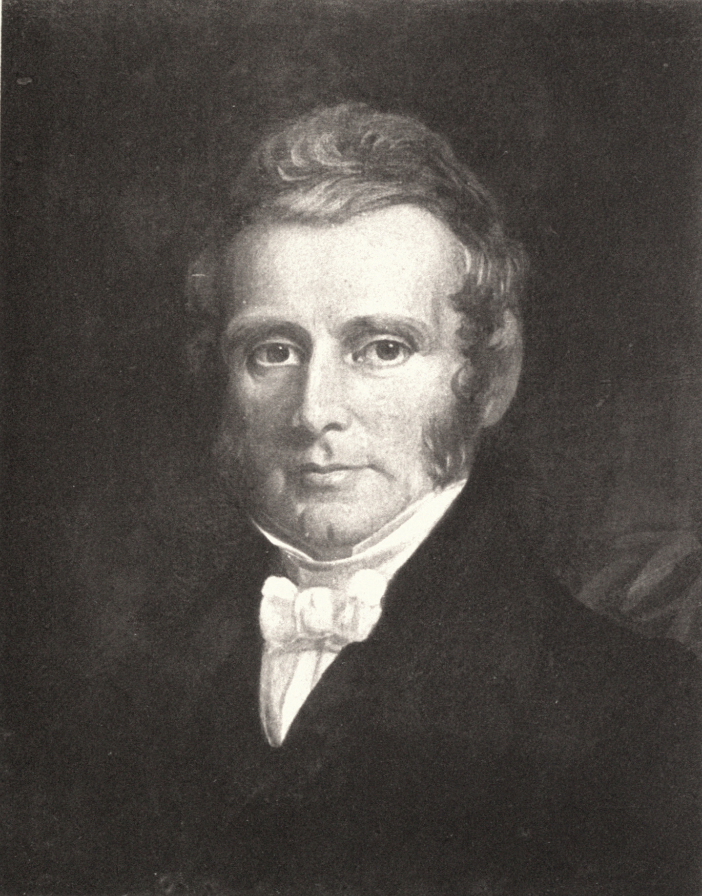 Rev. Charles Lowell, father of poet James Russell Lowell